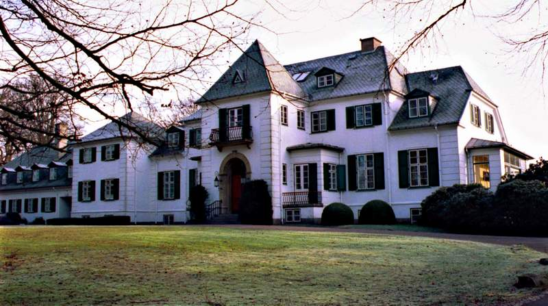 Photograph from 1927 of Rolighed in Skodsborg North of Copenhagen, Denmark